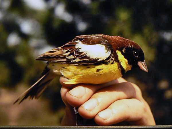 Yellow-breasted Bunting, male, caught at Svjatoj Nos peninsula, Lake Bajkal.